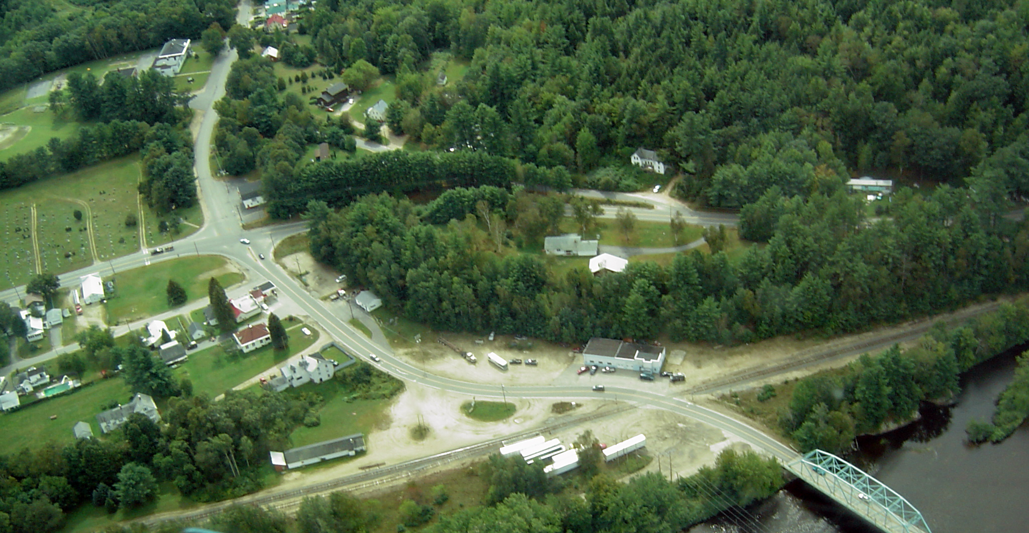 Town of Peru, Maine. I took this photo on a JAARS flight out of Swans airport in Dixfield, summer of 2006.